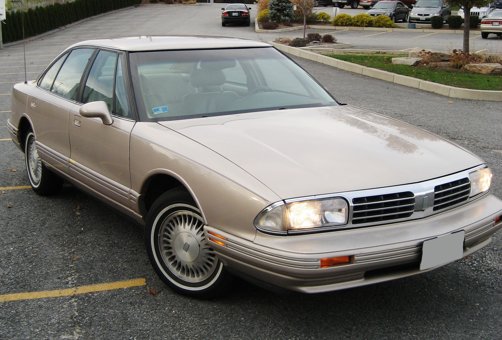 1998 Oldsmobile Regency. Notice the Oldsmobile Nintey-Eight chrome grille, alloy wheels, plastic front fenders, and body-side moldings.